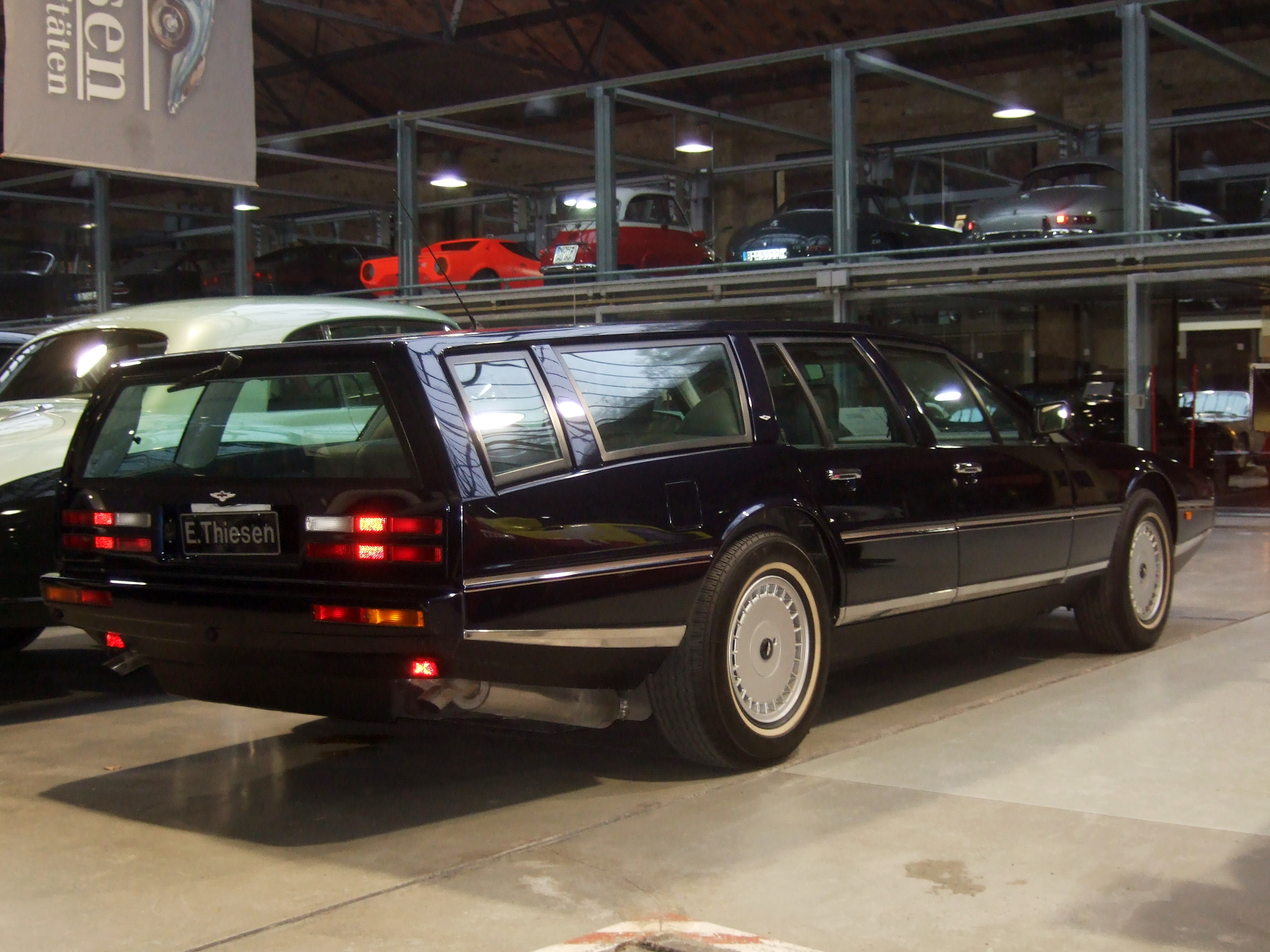 Aston Martin Lagonda "Shooting Brake" for sale at the Meilenwerk exhibition centre, Berlin. No asking price was indicated.